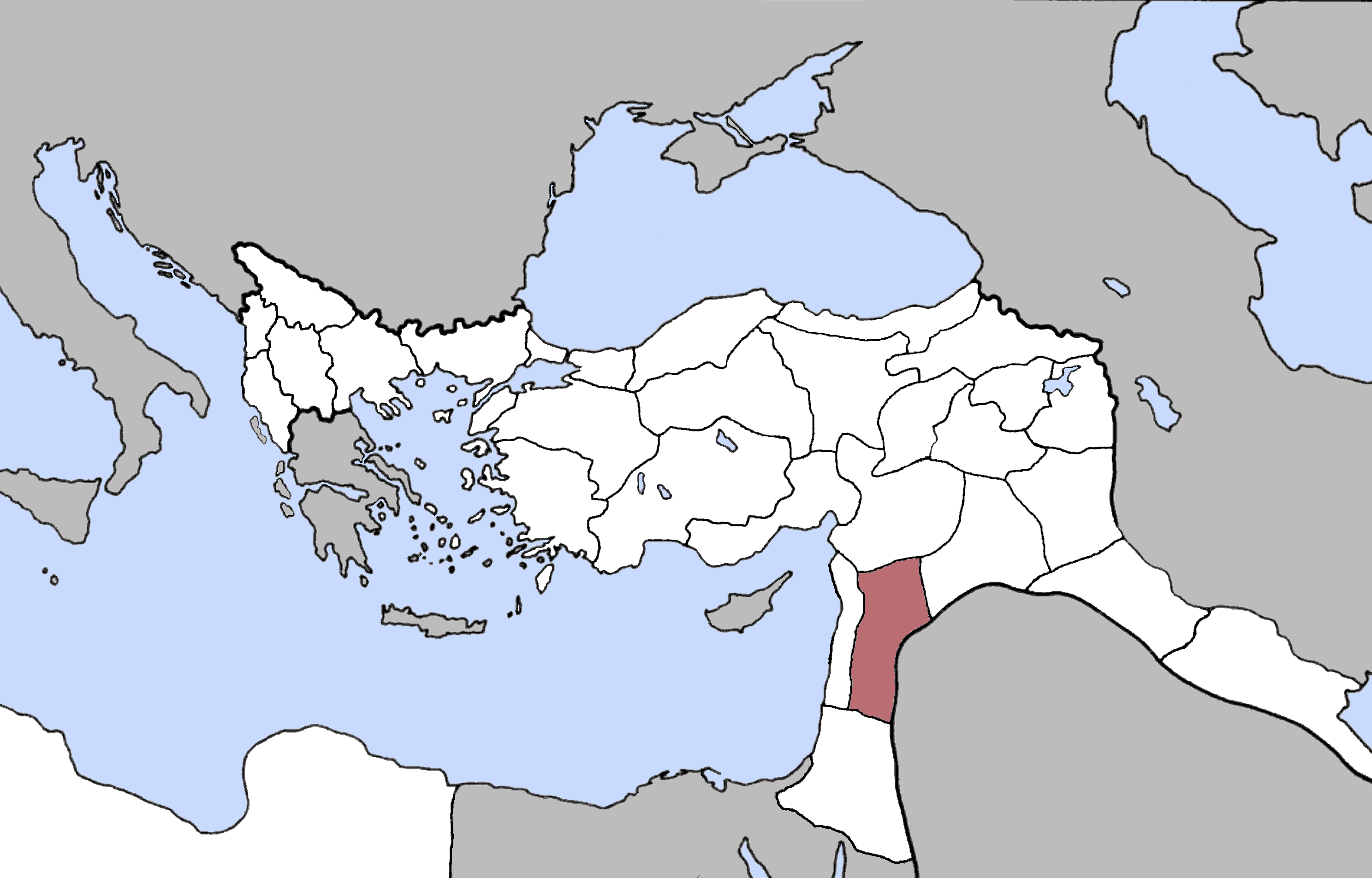 XY Vilayet, Ottoman Empire (1900). Source: An Economic and Social History of the Ottoman Empire, Volume 2 at Google Books By Suraiya Faroqhi, Bruce McGowan, Donald Quataert, Sevket Pamuk